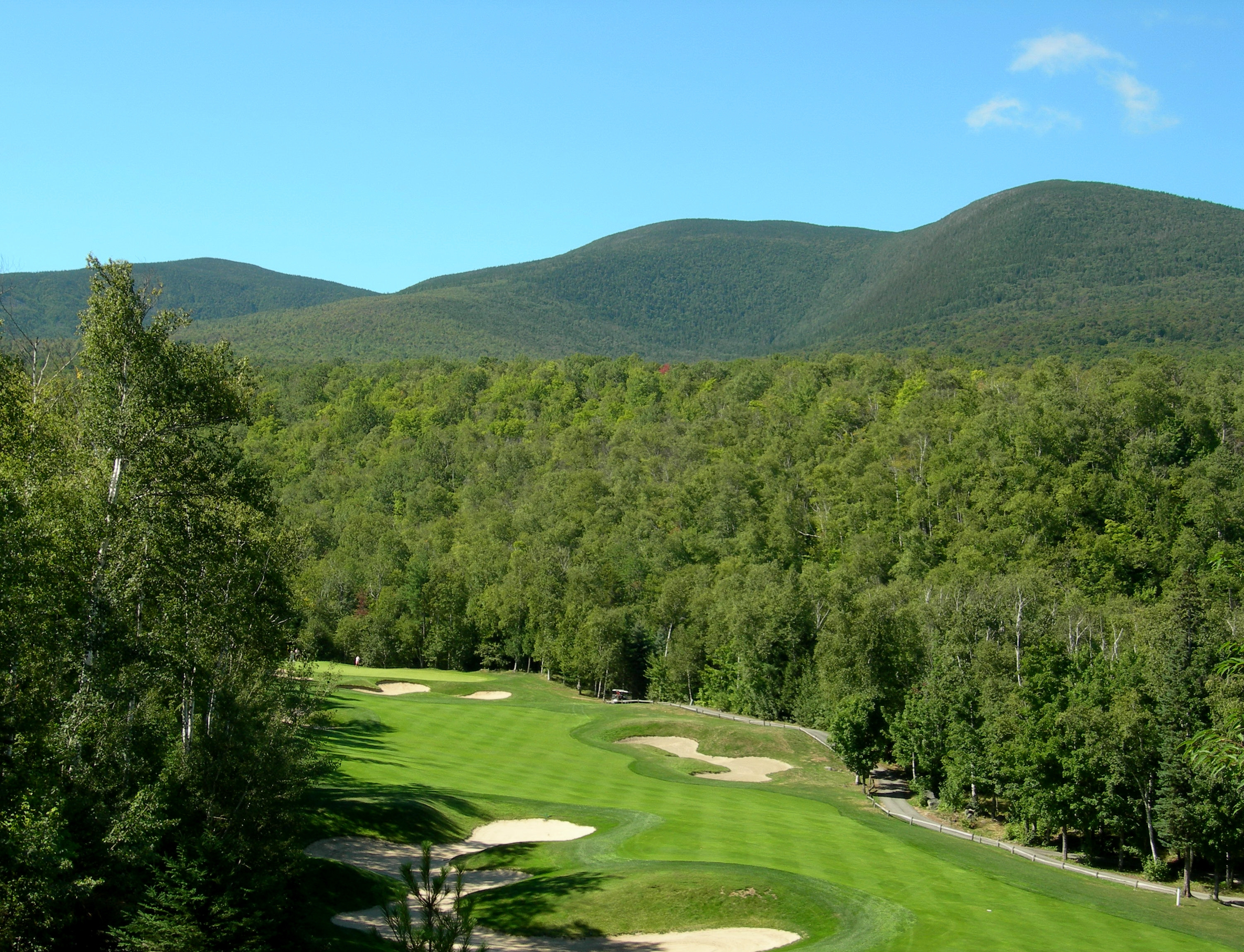 Crocker Mt., Maine, seen from the Sugarloaf golf course